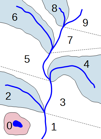 Example of a river system coded with the Pfafstetter coding system. The code attributes the numbers 2,4,6,8 to the primary tributary basins and the numbers 1,3,5,7,9 to inter-basin regions.